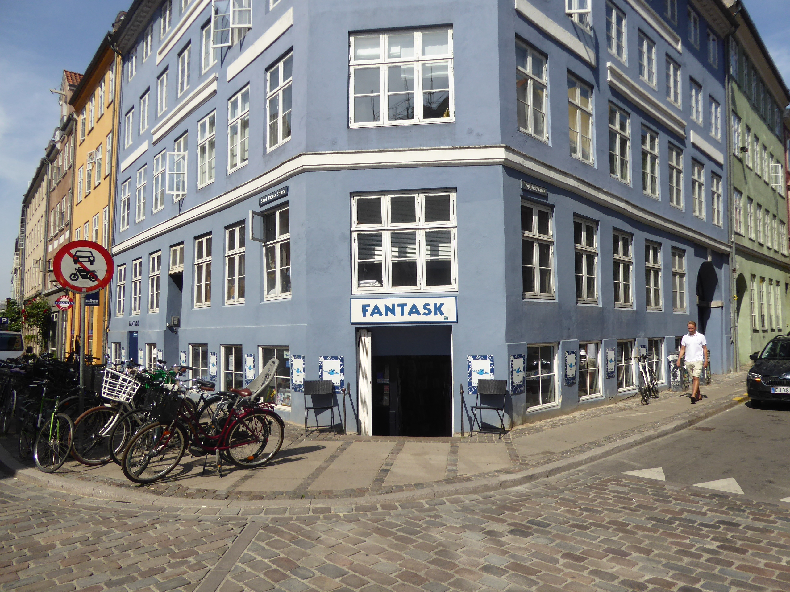 The comic and science fiction shop Fantask at the corner of Sankt Peders Stræde and Teglgårdstræde in Indre By in Copenhagen.